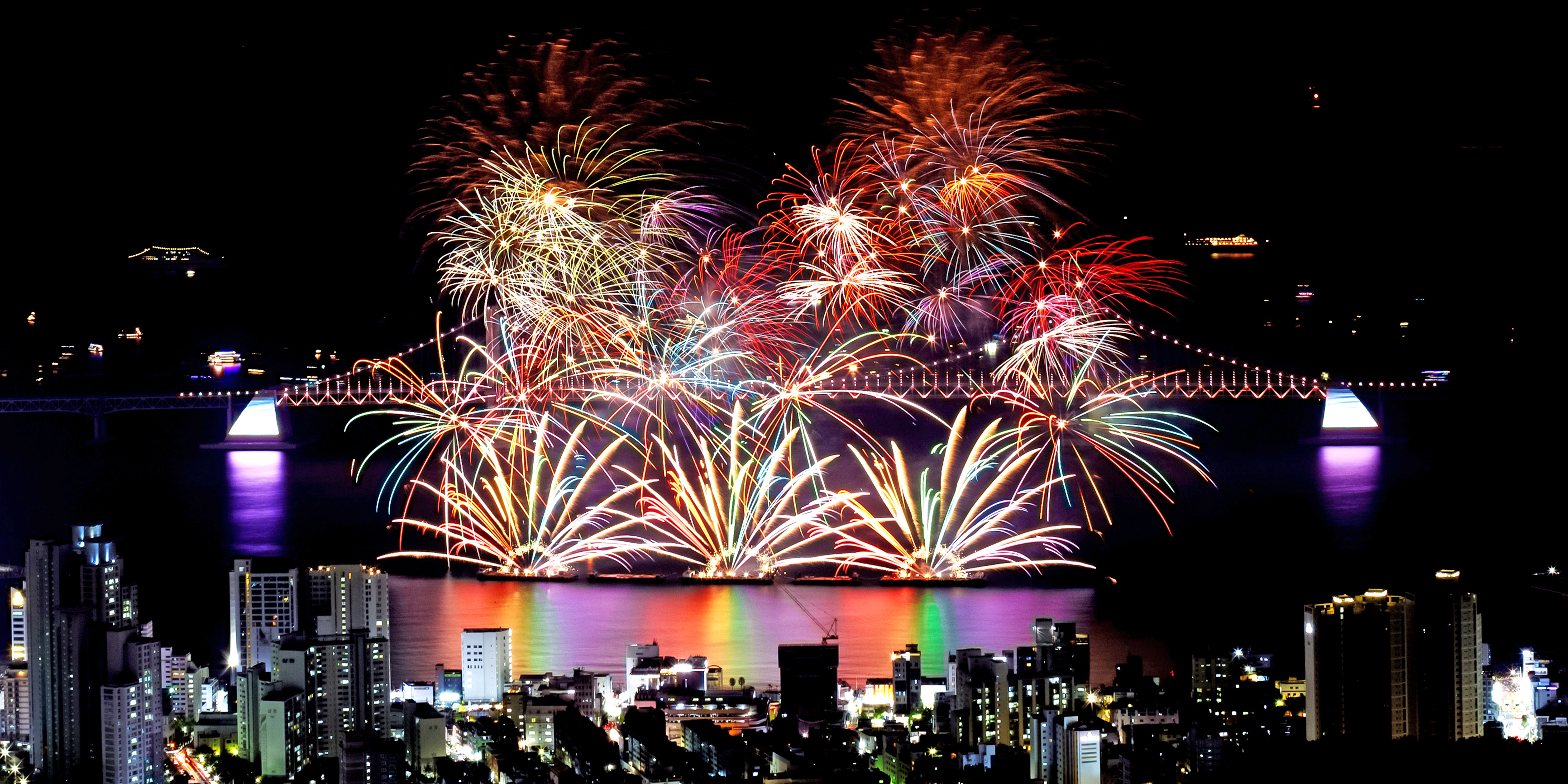 The Busan International Fireworks Festival (Korean: 부산국제불꽃축제), held annually at Gwangalli Beach, Busan, South Korea, is one of the most significant fireworks festivals in Asia. Tens of thousands of fireworks and state-of-the-art lasers light up the night sky in harmony with theme songs of the festival against a backdrop of the sea and the two-level suspension bridge, Gwangan Bridge.